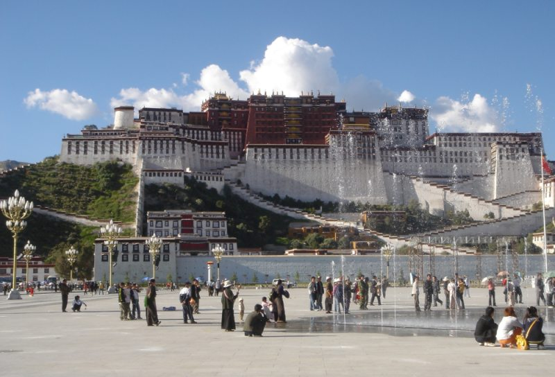 The Potala Square and its musical fountain in 2005